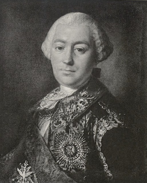 Aleksandr Ivanovich Shuvalov, 1710-1771